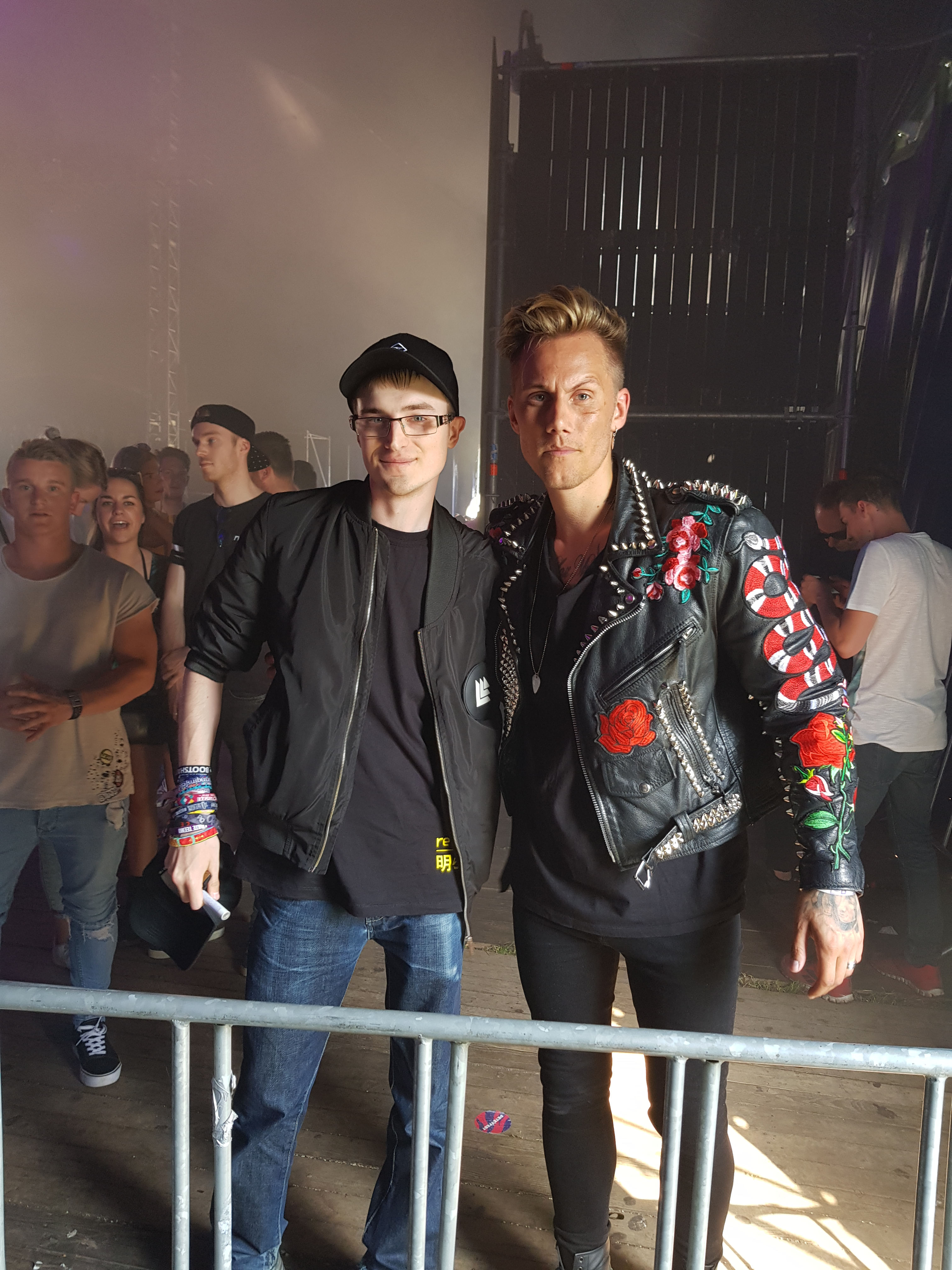 KAAZE